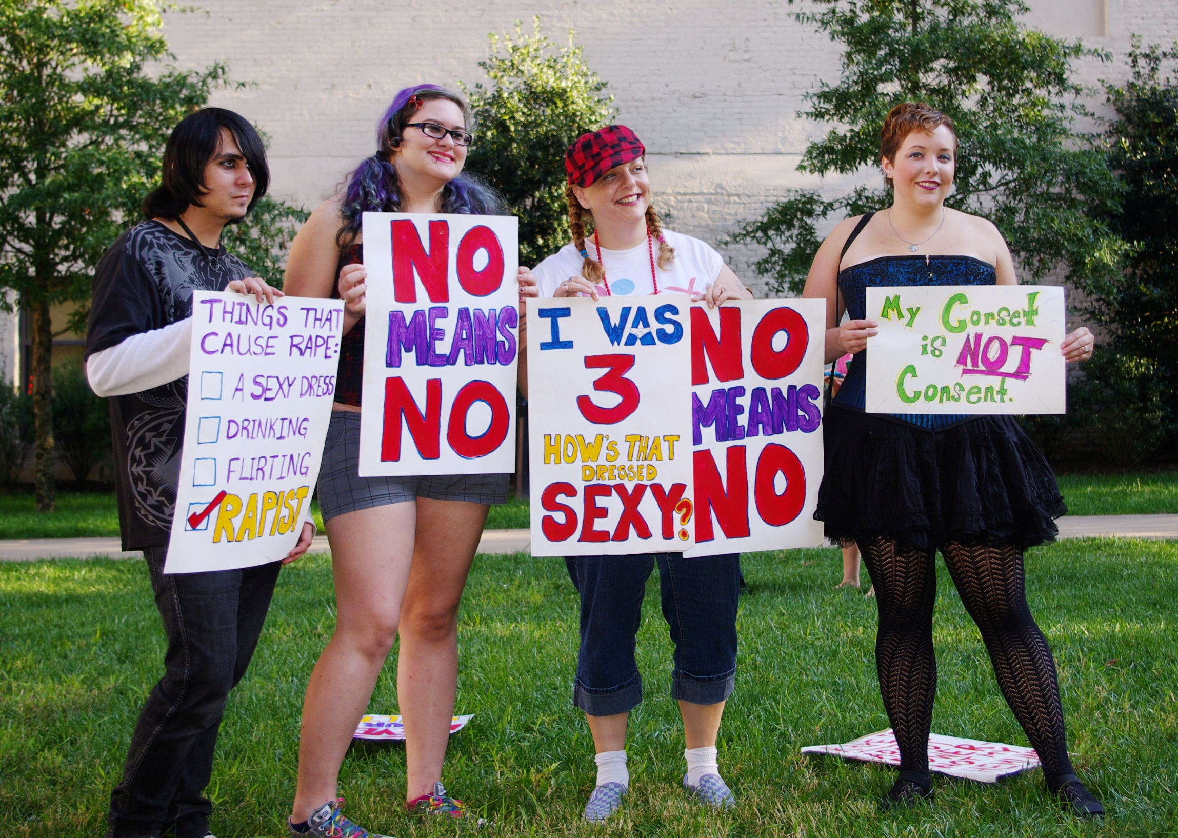 Marchers with Slutwalk Knoxville display signs at Krutch Park Extension in Knoxville, Tennessee, USA. This march was one of numerous worldwide Slutwalk rallies held throughout 2011 to raise awareness for the rights of rape victims. The signs (from left to right) read, "Things that cause rape" (with "rapist" being the correct choice), "No means no," "I was 3, how's that dressed sexy?" "No means no," and "My corset is not consent."